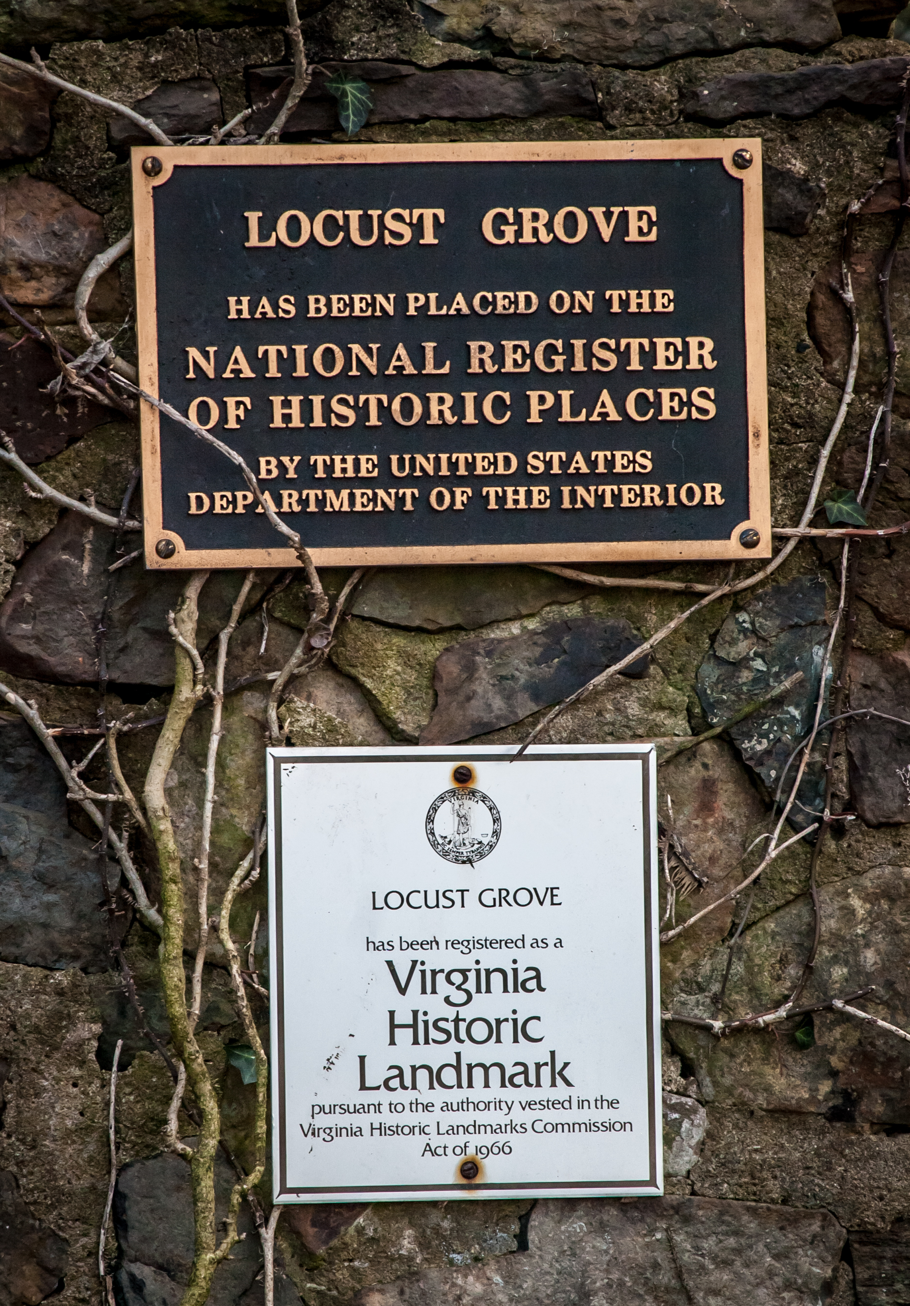 National Register of Historic Places Plaque at driveway to Locust Grove, Rapidan, VA